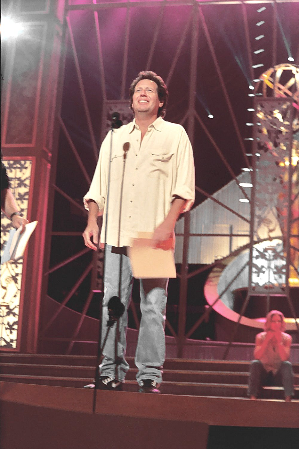 1994 Emmy Awards NOTE: Permission granted to copy, publish, broadcast or post any of my photos, but please credit "photo by Alan Light" if you can. Thanks. Scanned from the original 35MM film negative.